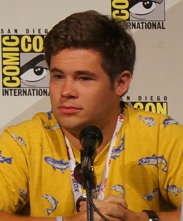 Cartoon Network Panel with Pete Browngardt, Audie Harrison, Adam Devine, Ian Jones- Quartey